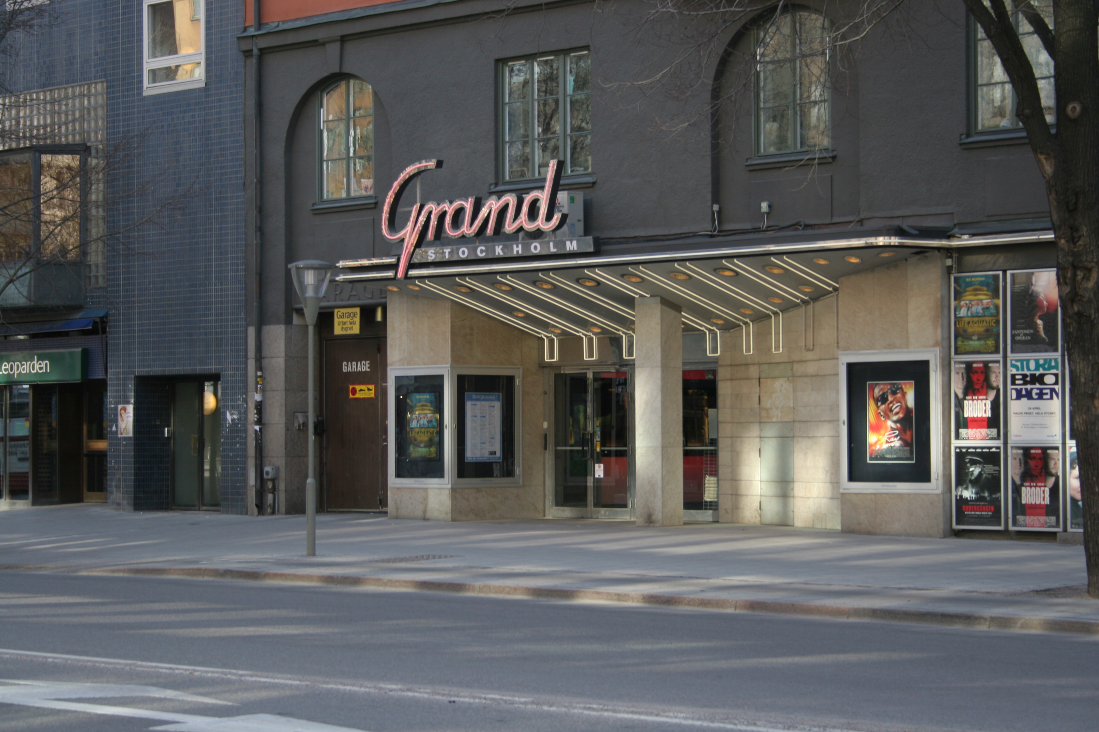 The cinema Grand, Stockholm, Sweden. The cinema where Olof Palme saw the movie Bröderna Mozart on the night of his murder.